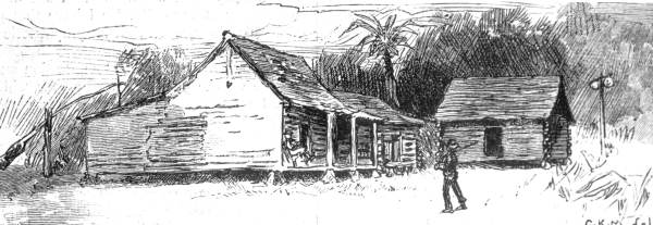 John Pierce's log house and out buildings on the west bank of the Kissimmee River. One of half a dozen on the 250 mile course of the river.